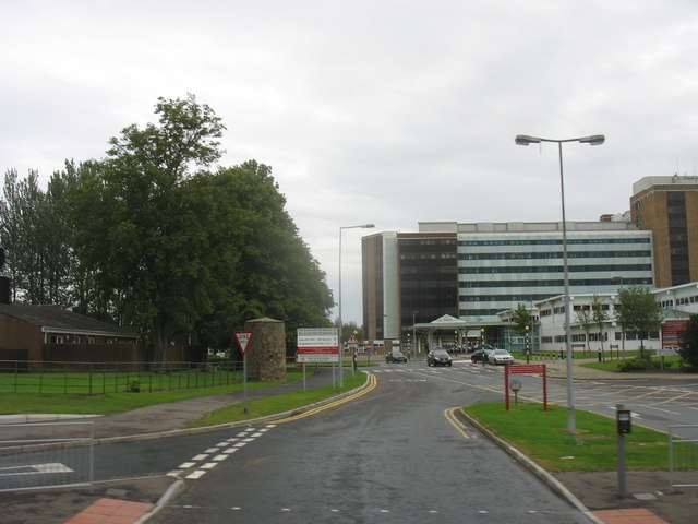 The Altnagelvin Hospital, Derry/Londonderry This is the main hospital serving the north-west of Ulster. Altnagelvin_Area_Hospital